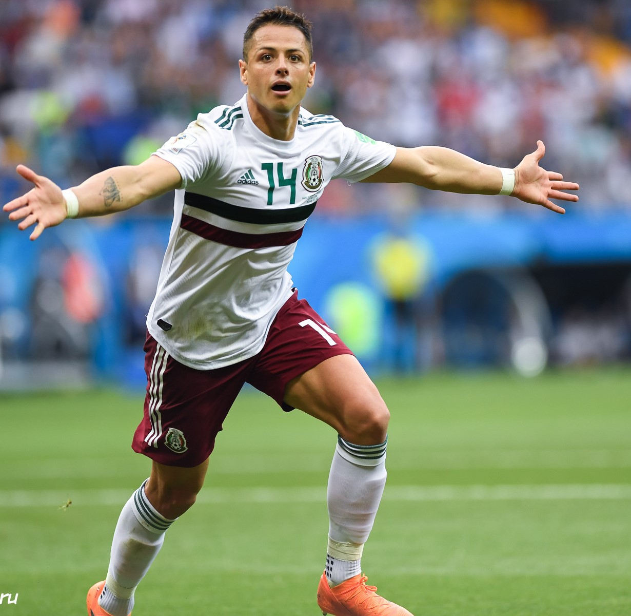 Javier Hernández Balcázar